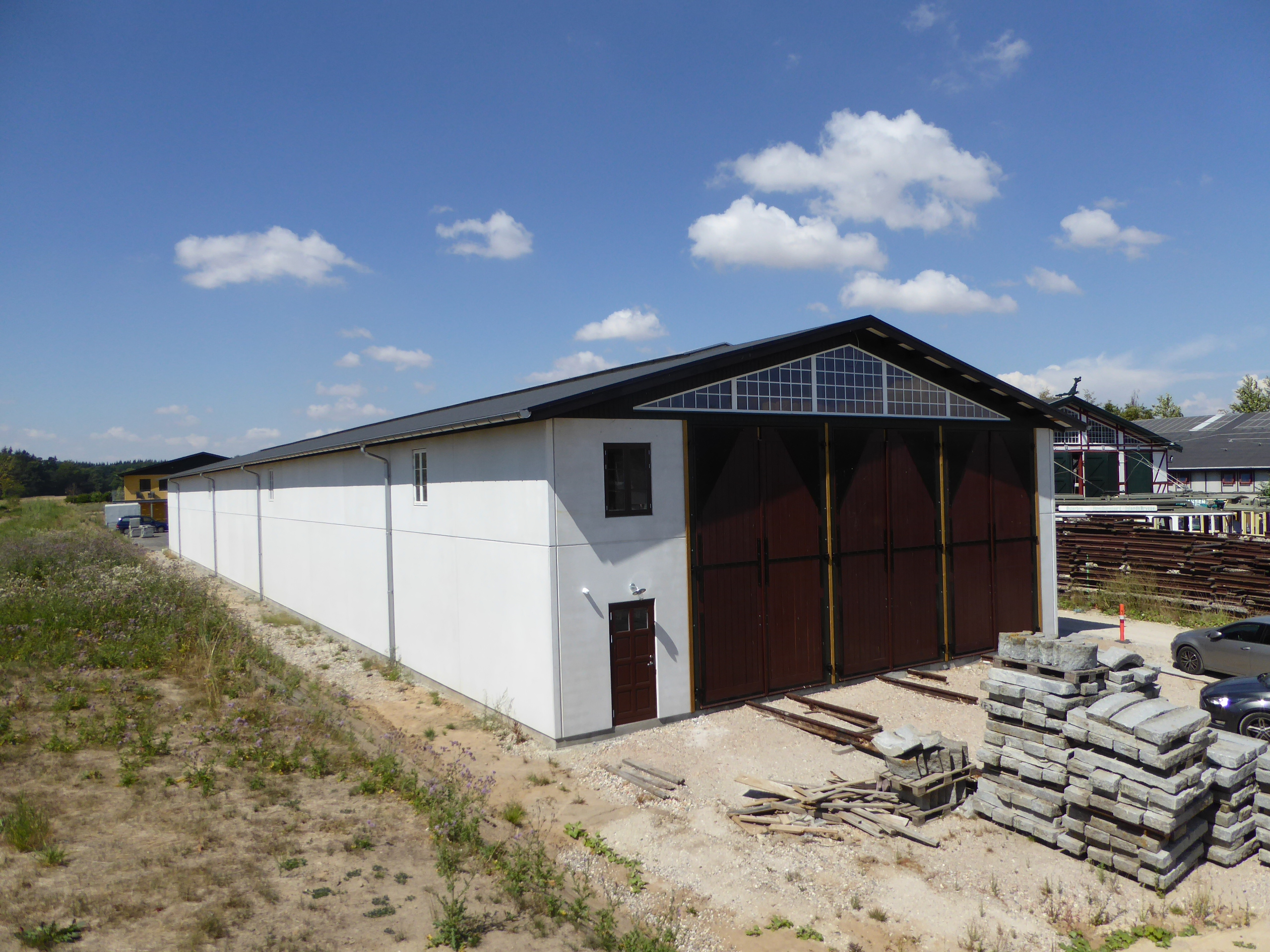 The tram and bus depot Remise 4 at Sporvejsmuseet Skjoldenæsholm in Denmark. It was build in 2017.